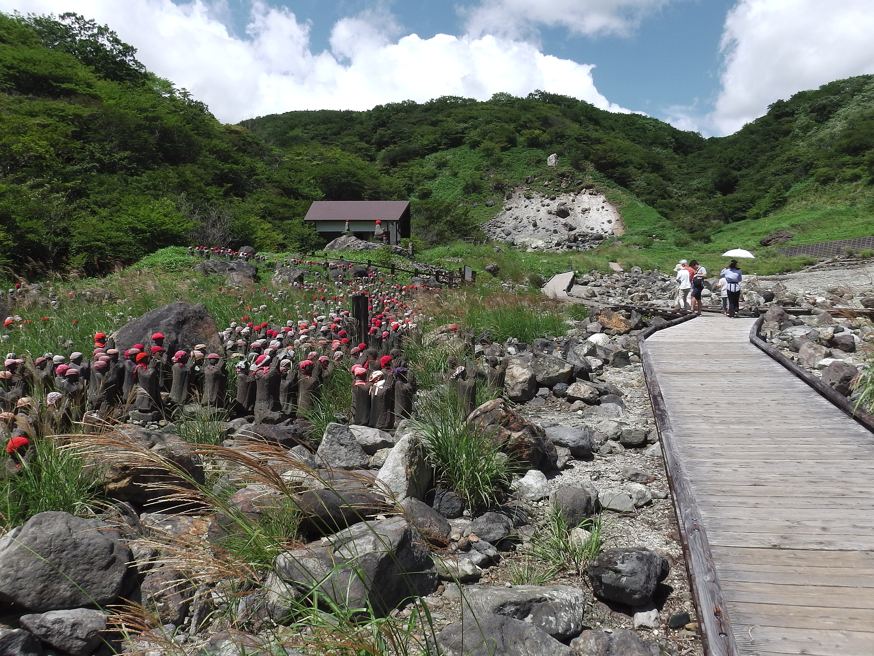 Stone Jizos (stone statues of Kshitigarbha) before the “Sessho-seki”(Killing Stone),Nasu,Tochigi,Japan.